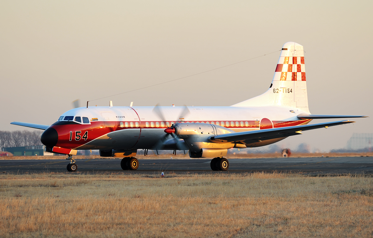 Japan Air Self-Defence Force NAMC YS-11FC at Iruma